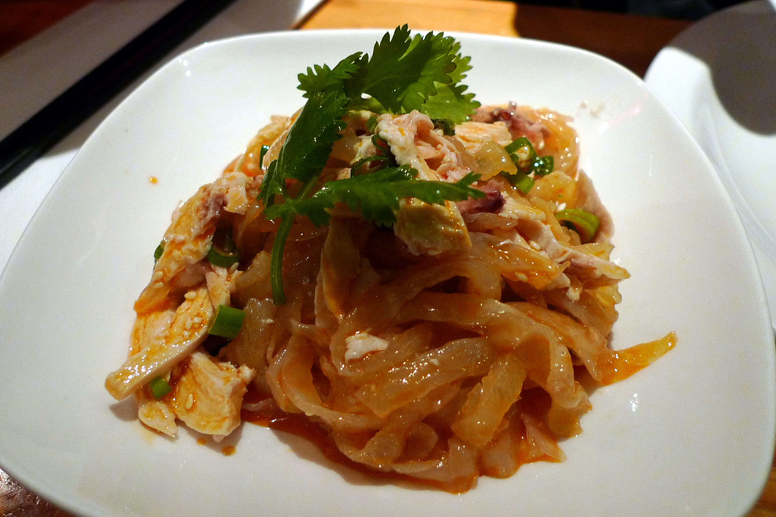 Jellyfish with shredded chicken. A lot tastier and better than you might think from the name of the meat... At Sanxia Renjia, Goodge Street.